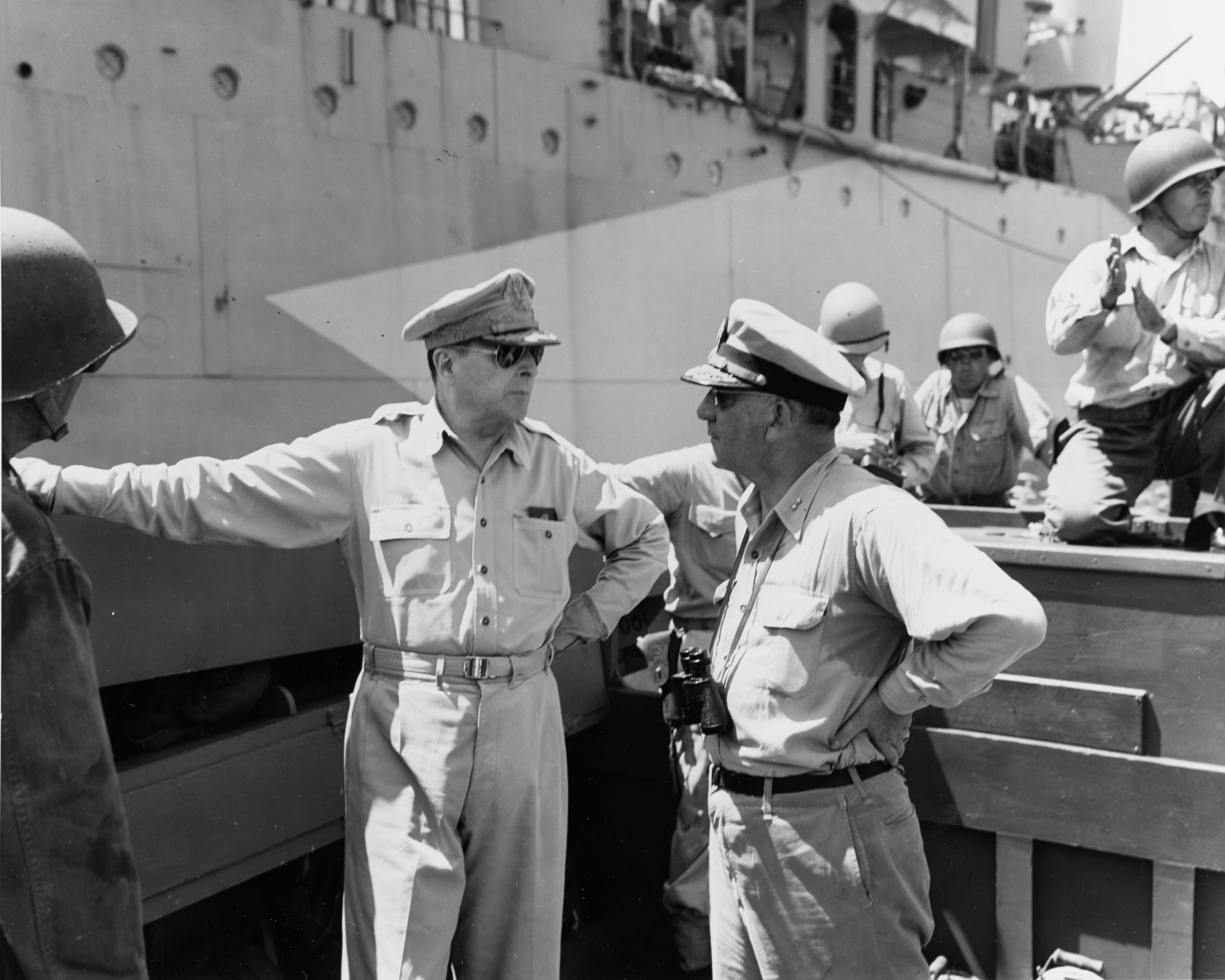 General Douglas MacArthur, U.S. Army, and Rear Admiral Daniel E. Barbey, U.S. Navy, leaving the U.S. Navy light cruiser USS Nashville (CL-43) to visit the invasion beaches on Morotai, 15 September 1944.